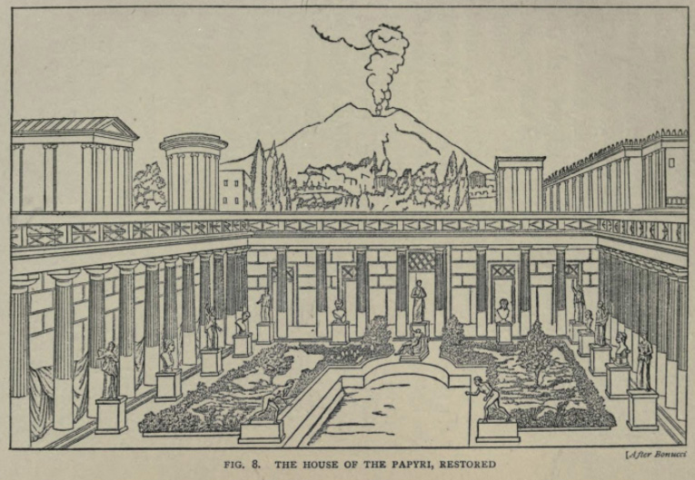 Restored Villa of the Papyri